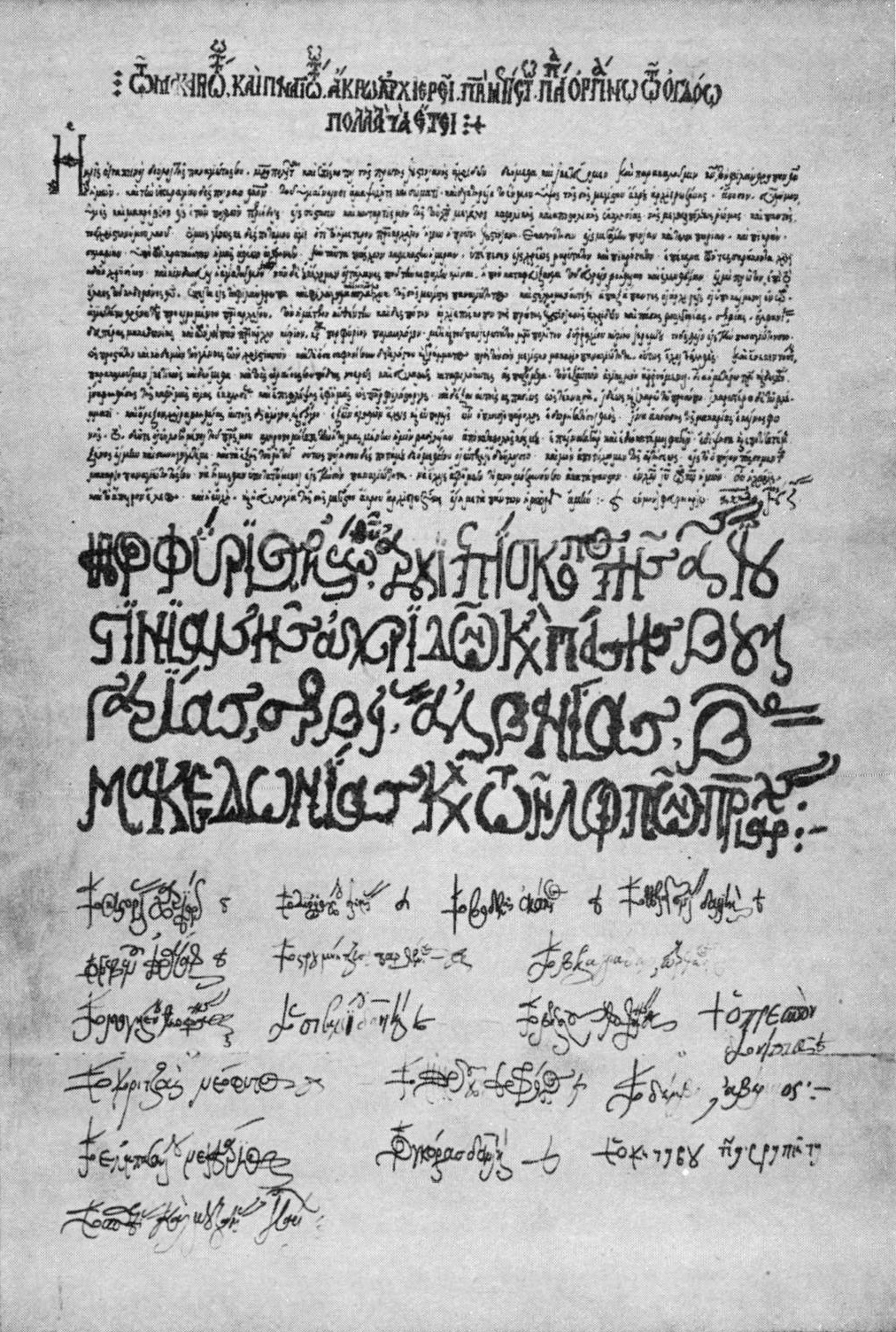 Letter by Porfirius Palaiologos 1624